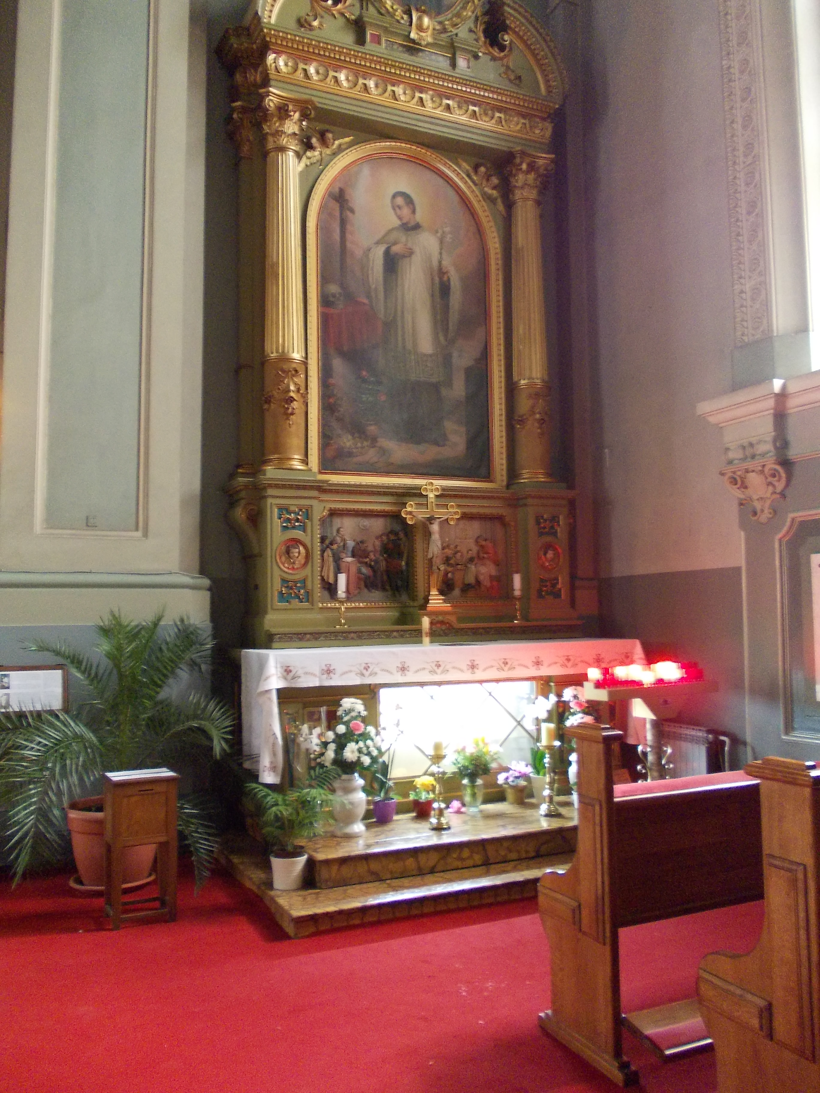 Sacred Heart Basilica, Zagreb